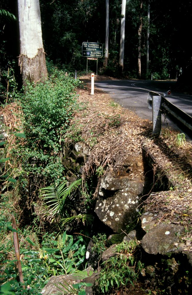 Tamborine Mountain Road - Geissmann Drive